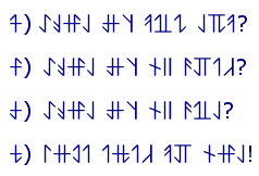 Four essential travel phrases in Ewellic alphabet: 1) Where is my room? - 2) Where is the beach? - 3) Where is the bar? - 4) Don't touch me there!